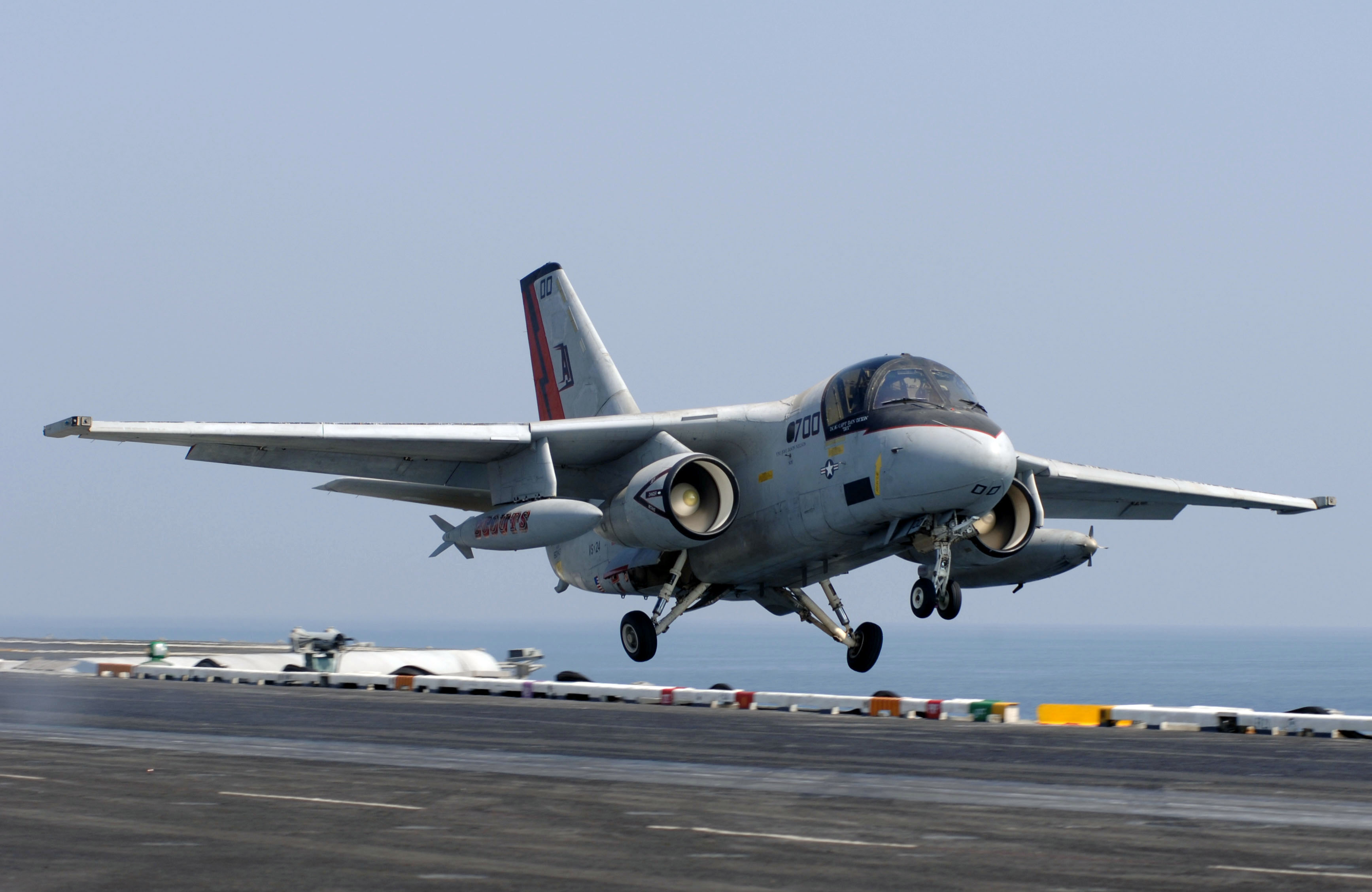 051006-N-2838C-005 Persian Gulf (Oct. 6, 2005) - An S-3B Viking, assigned to the “Scouts” of Sea Control Squadron 24 (VS-24), is launched off the flight deck of the Nimitz-class aircraft carrier USS Theodore Roosevelt (CVN 71). Roosevelt and embarked Carrier Air Wing Eight (CVW-8) are currently underway on a regularly scheduled deployment conducting maritime security operations. U.S. Navy photo by Photographer's Mate 3rd Class Michael D. Cole (RELEASED)